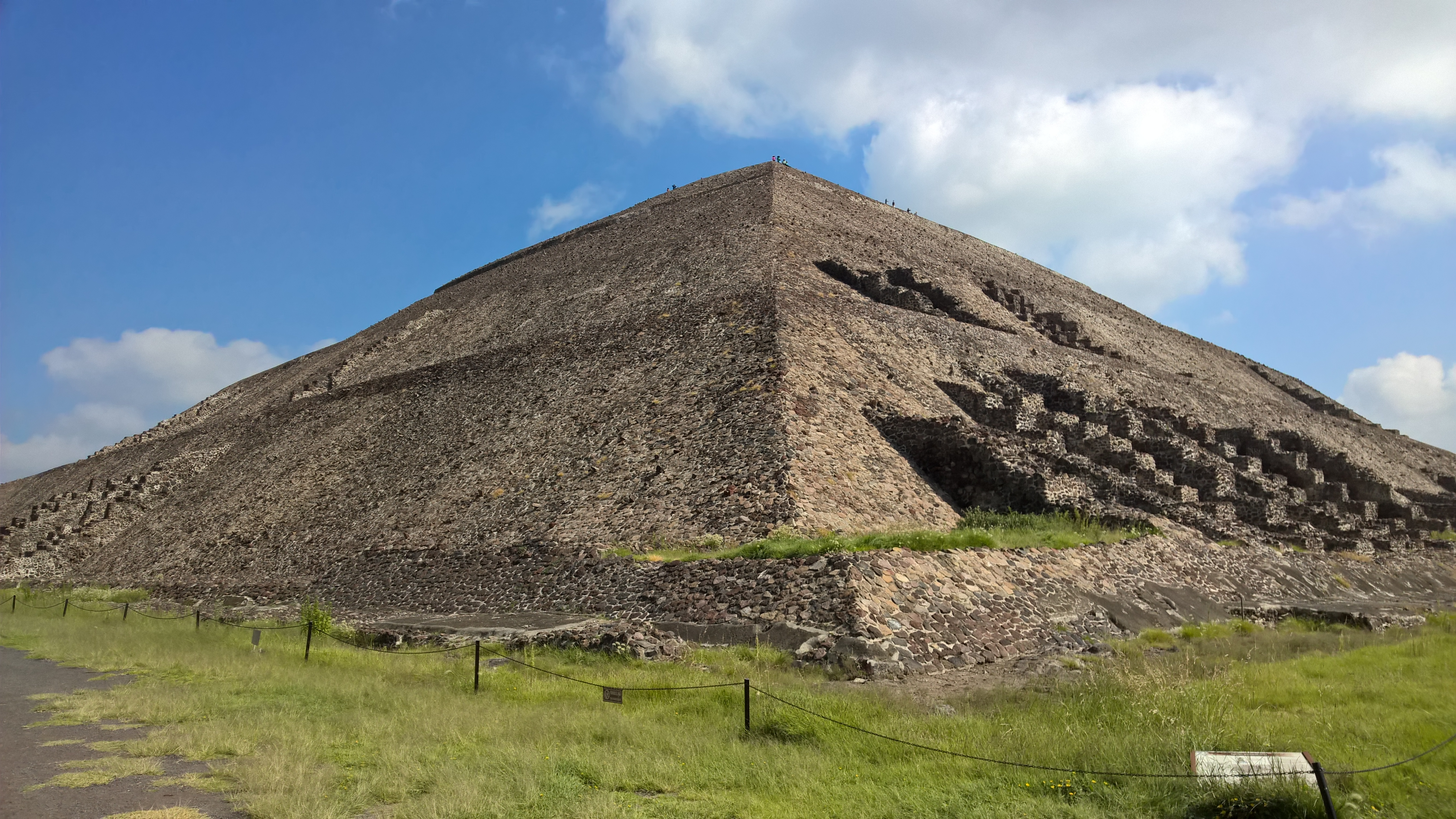 Pyramid of the Sun